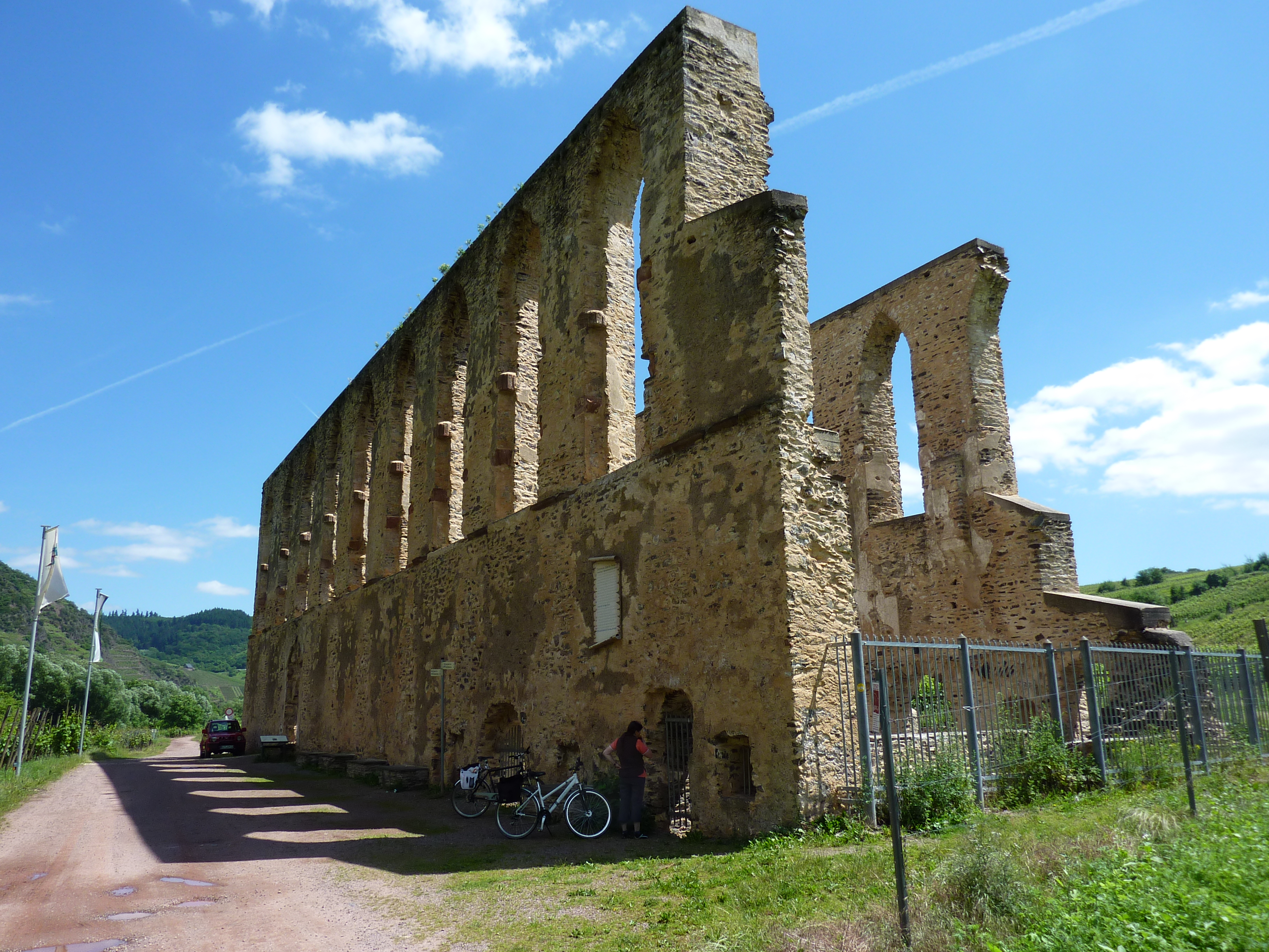 Monastery ruins Stuben near Bremm at Moselle